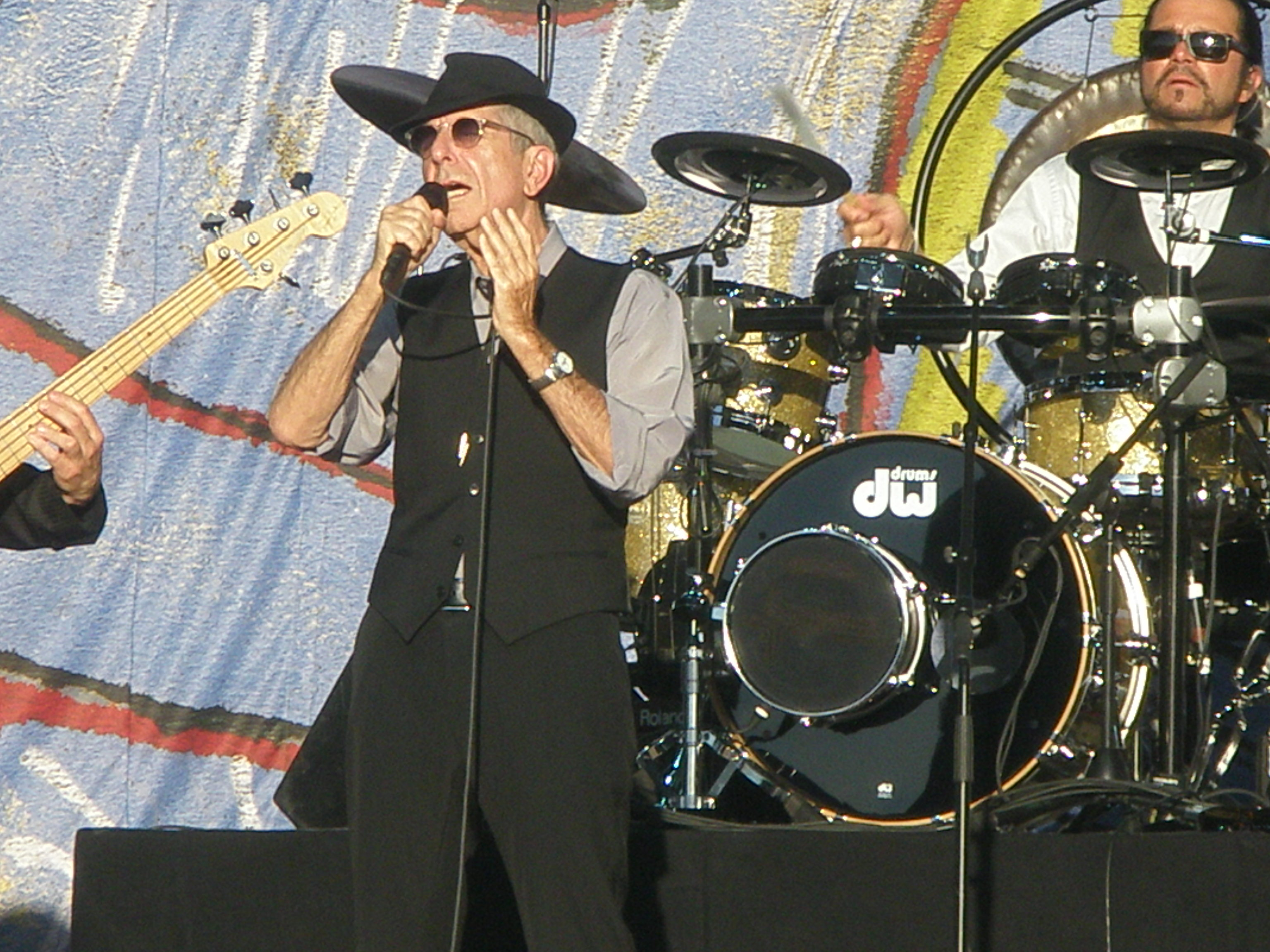 Leonard Cohen, McLarenvale, South Australia, January 2009.